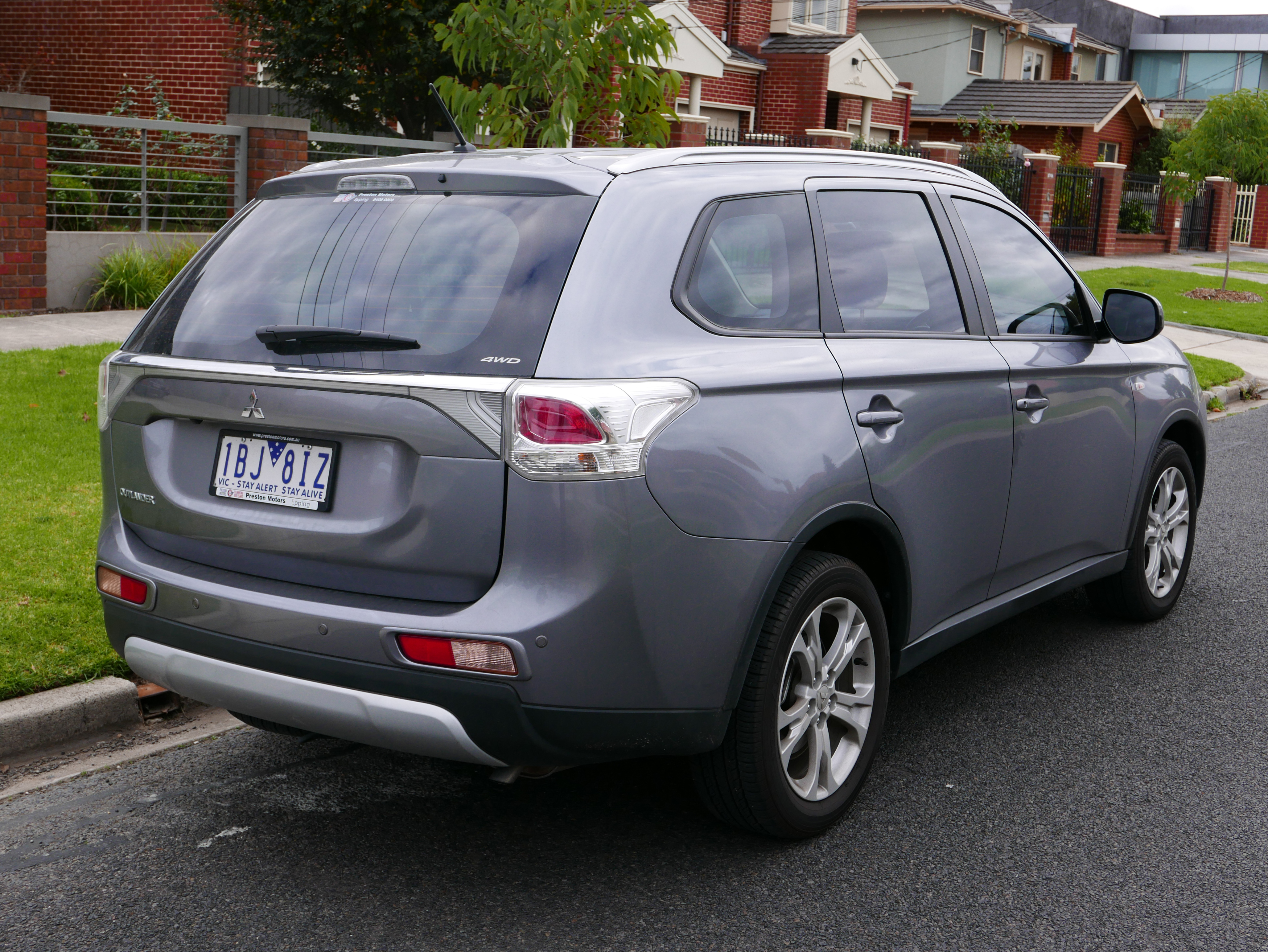 2014 Mitsubishi Outlander (ZJ MY14.5) ES 4WD wagon. Photographed in Fairfield, Victoria, Australia. Vehicle registration enquiry results Jurisdiction Victoria Registration 1BJ8IZ Chassis code JMFXTGF8WEZ001825 Engine code 4J12MP2188 Compliance date 2014-02 Year of manufacture 2014